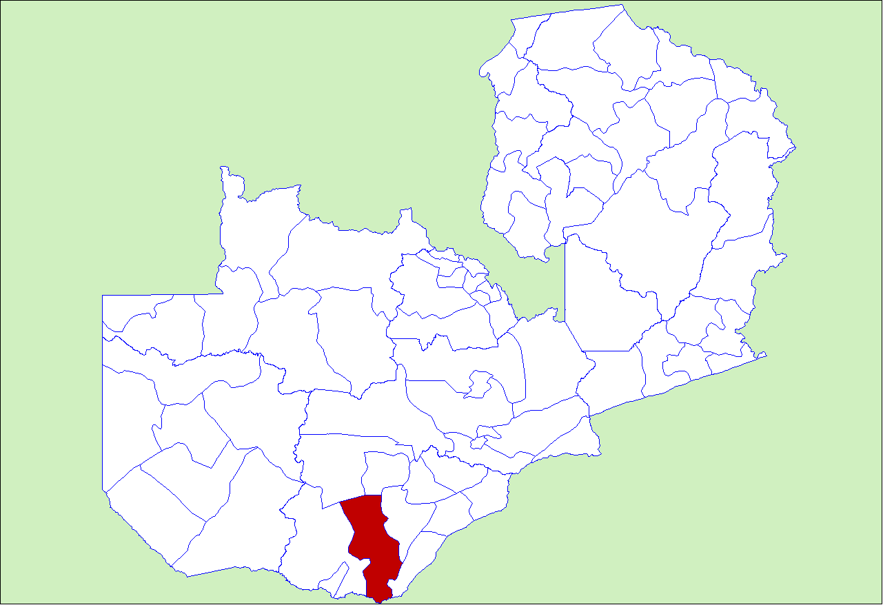 District locator in Zambia